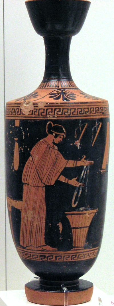 Woman pulling wool from a kalathos. Attic red-figure lekythos, ca. 480-470 BC. From Tanagra. National Archaeological Museum in Athens, 1343.